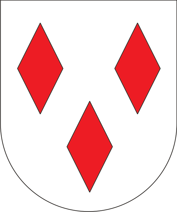 coats of arms of the lordship of Dyck